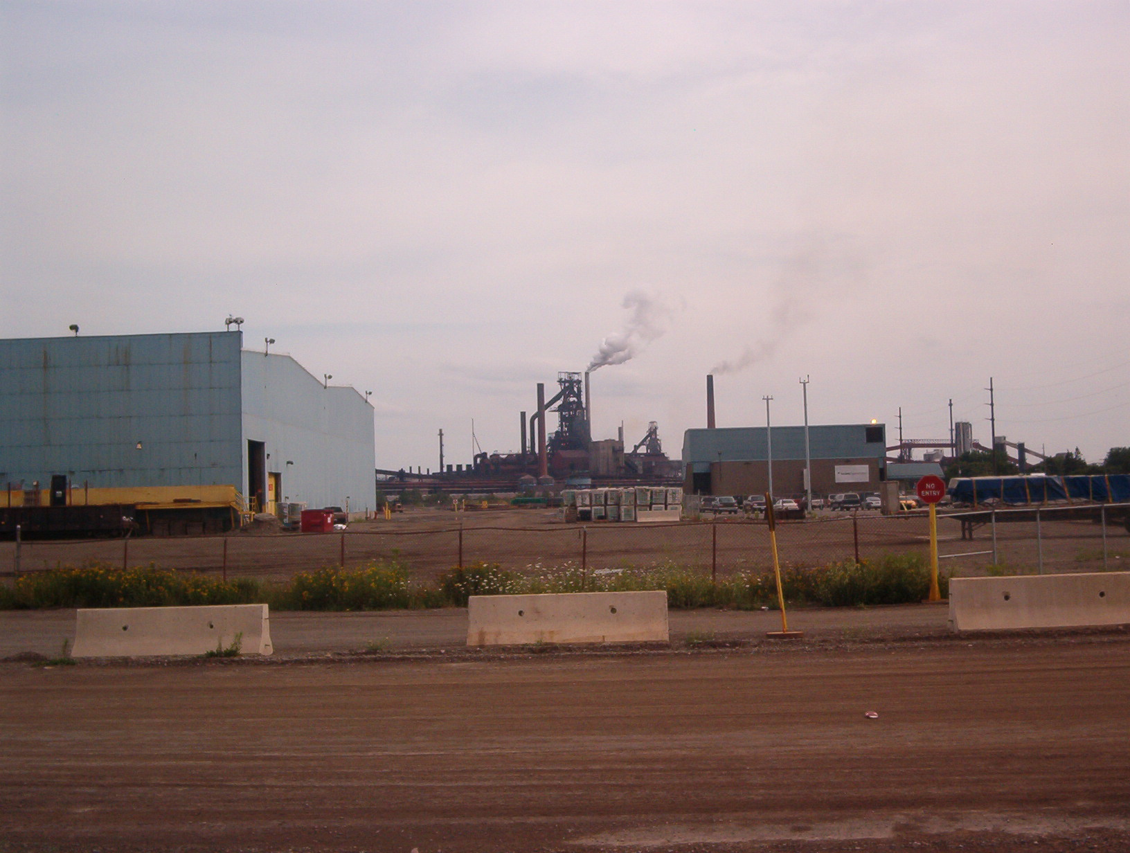 Algoma Steel photo taken from Wallace Terrace Sault Ste. Marie, Ontario, Canada 30 June, 2006.